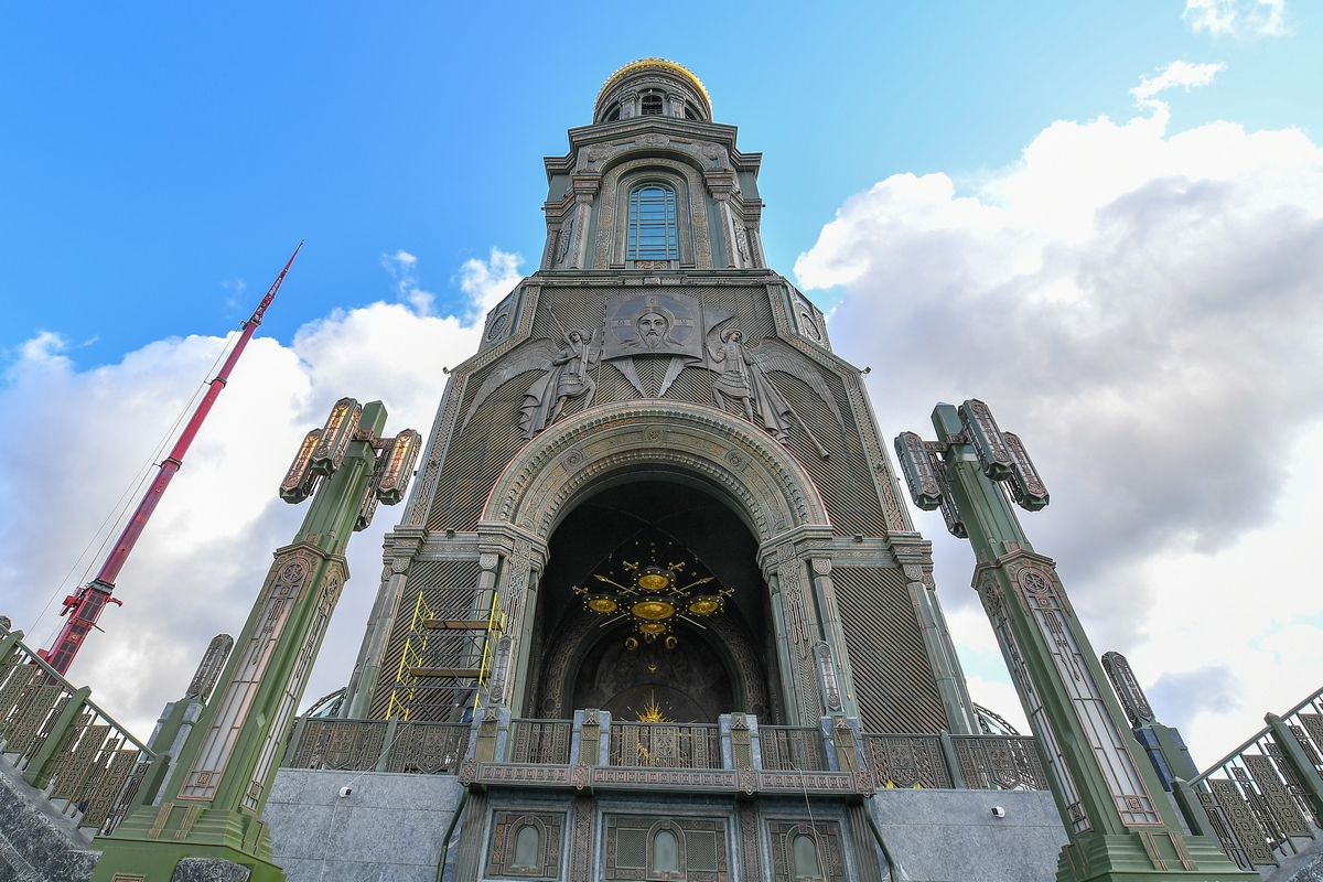 Cathedral of the Resurrection of Christ (Main Cathedral of the Russian Armed Forces).